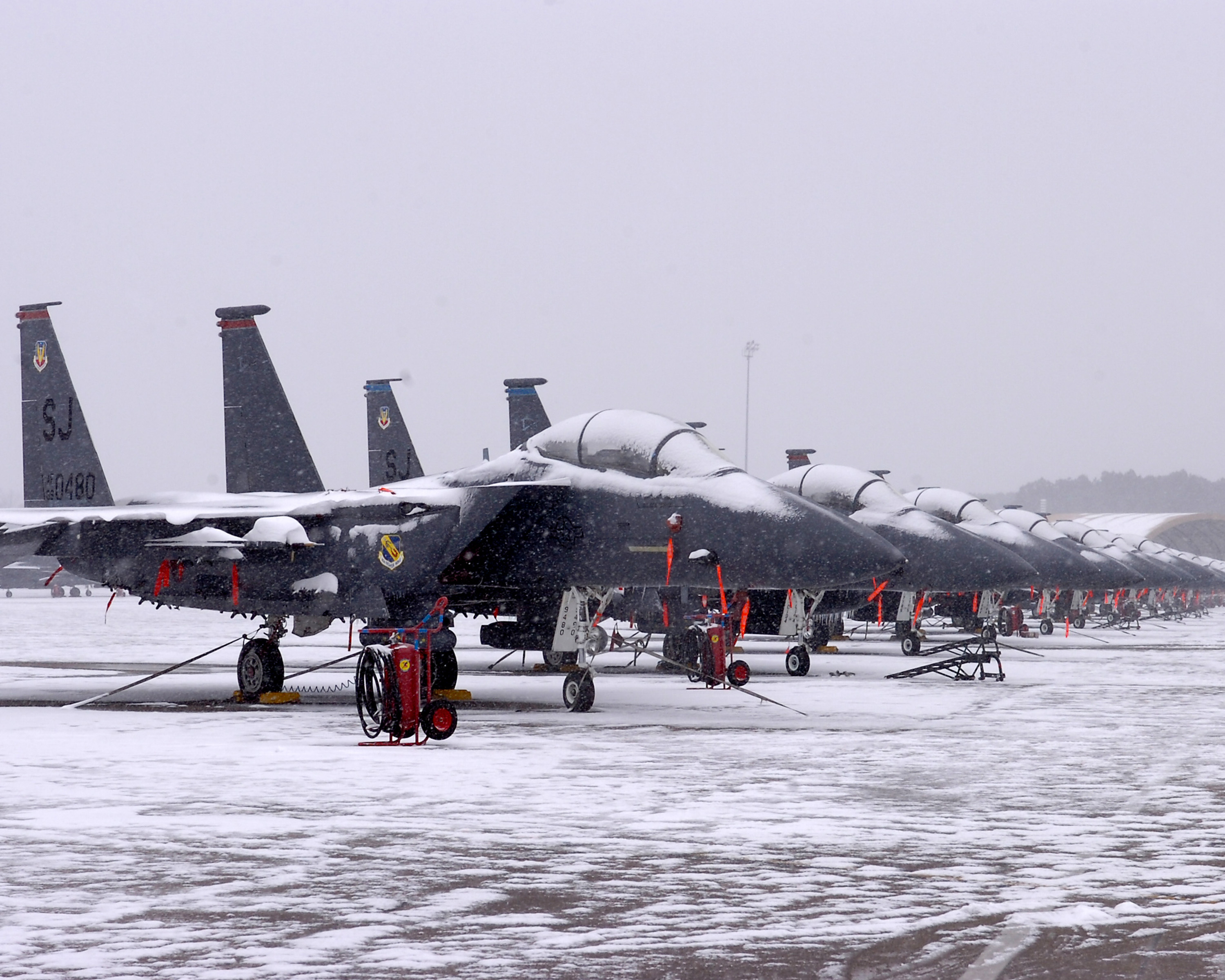 Several F-15E Strike Eagles sit grounded during a heavy snowstorm here Jan. 20, 2009 at Seymour Johnson Air Force Base, N.C. The unseasonable weather pattern dropped four to six inches of snow in a three hour period. (U.S. Air Force photo by Master Sgt. Brandt Smith)